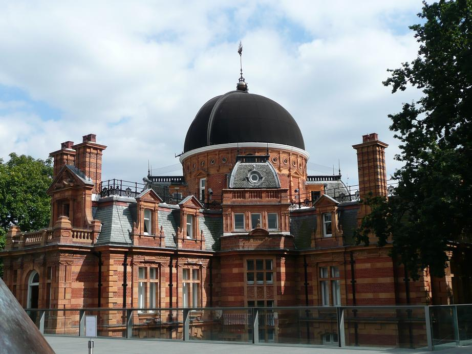 Royal Observatory, Greenwich